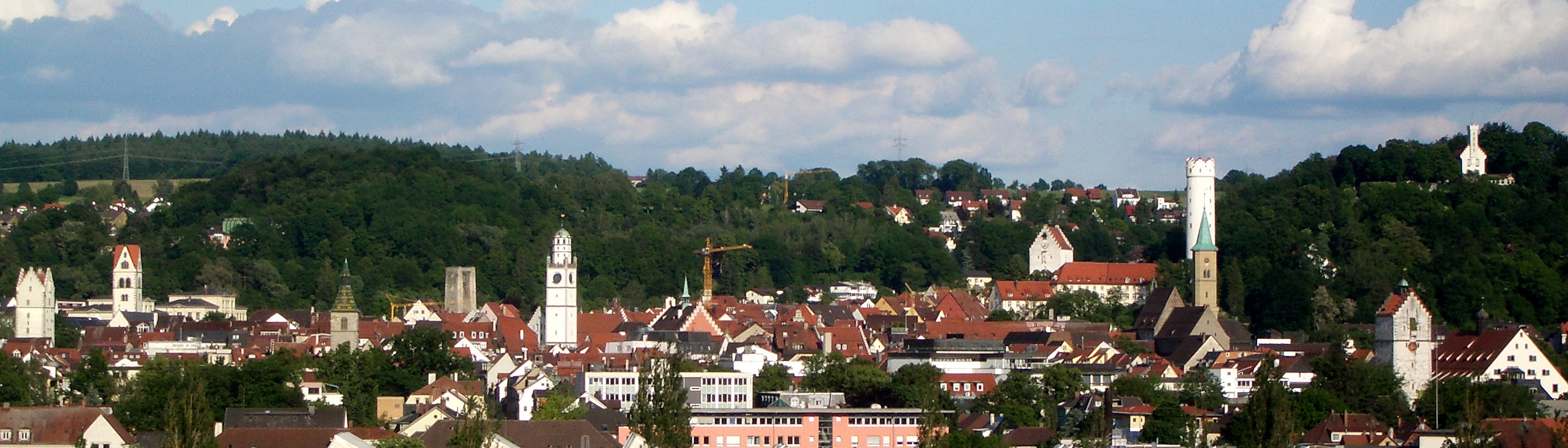 Ravensburg, Germany: View from West